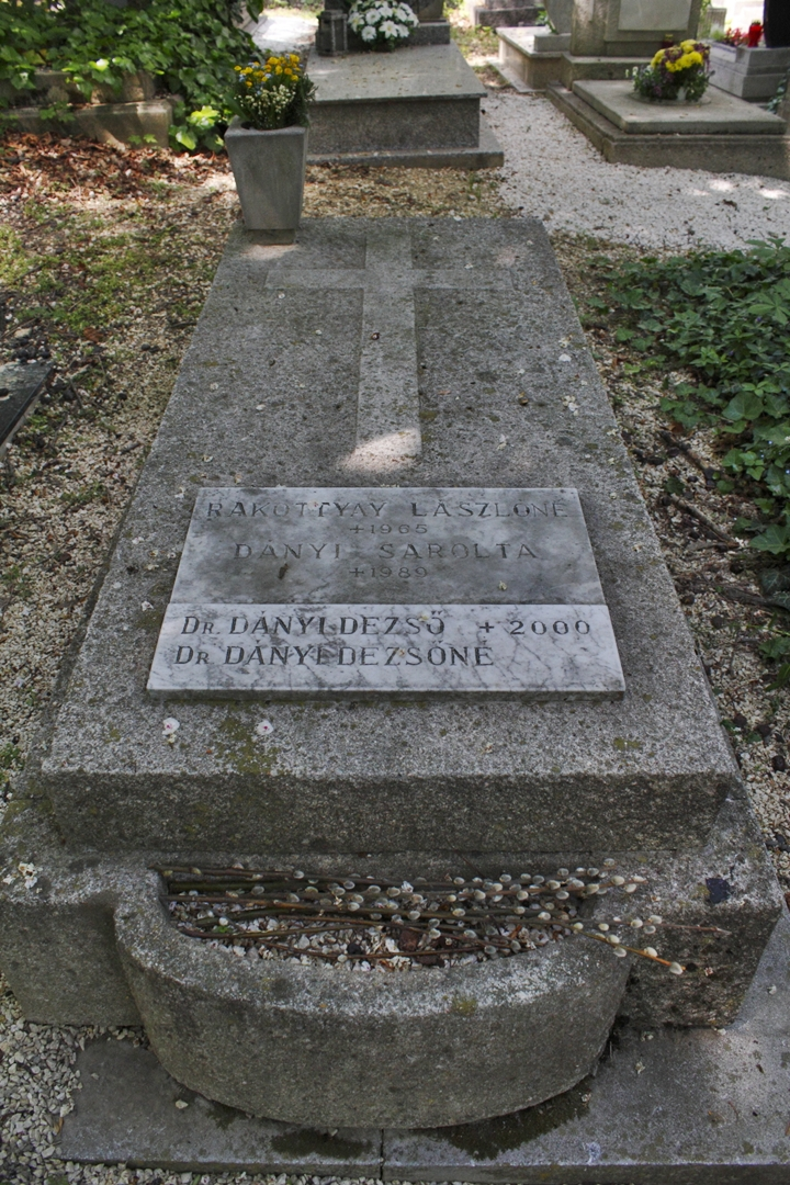 Tomb of Hungarian demographer and librarian Dezső Dányi (1921–2000). Farkasréti Cemetery [14-1-372].